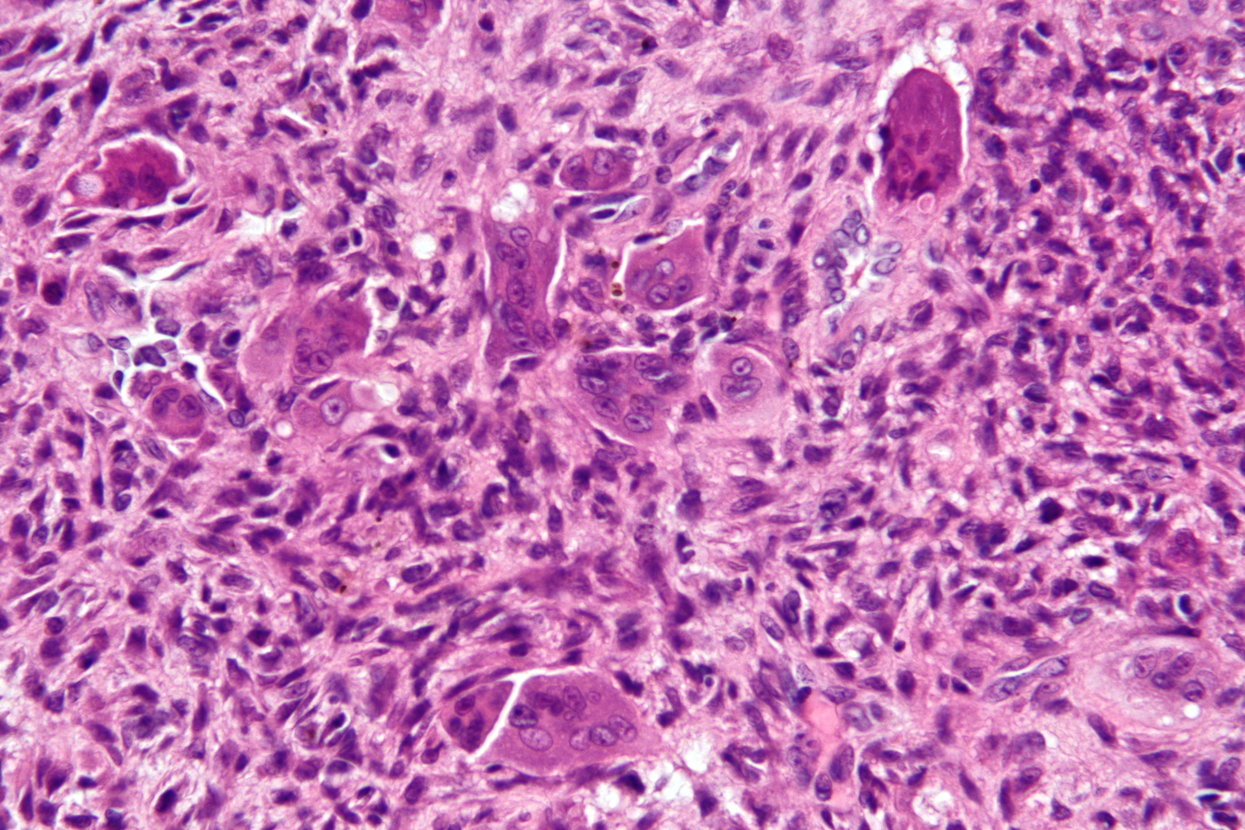 Very high magnification micrograph of an aneurysmal bone cyst, abbreviated ABC. H&E stain. ABCs have many giant cells; however, unlike giant cell tumours of bone the cells in the background are spindle cells. Giant cell reparative granuloma may be considered to be a variant of ABC.[1] Related images Intermed. mag. High mag. Very high mag. References ↑ (Jan 2012). "A novel t(6;13)(q15;q34) translocation in a giant cell reparative granuloma (solid aneurysmal bone cyst).". Hum Pathol.